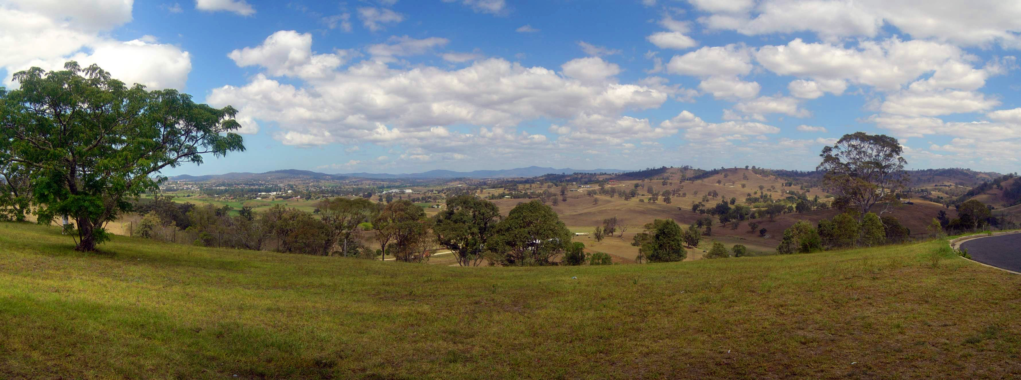 Panorama of the Bega Valley